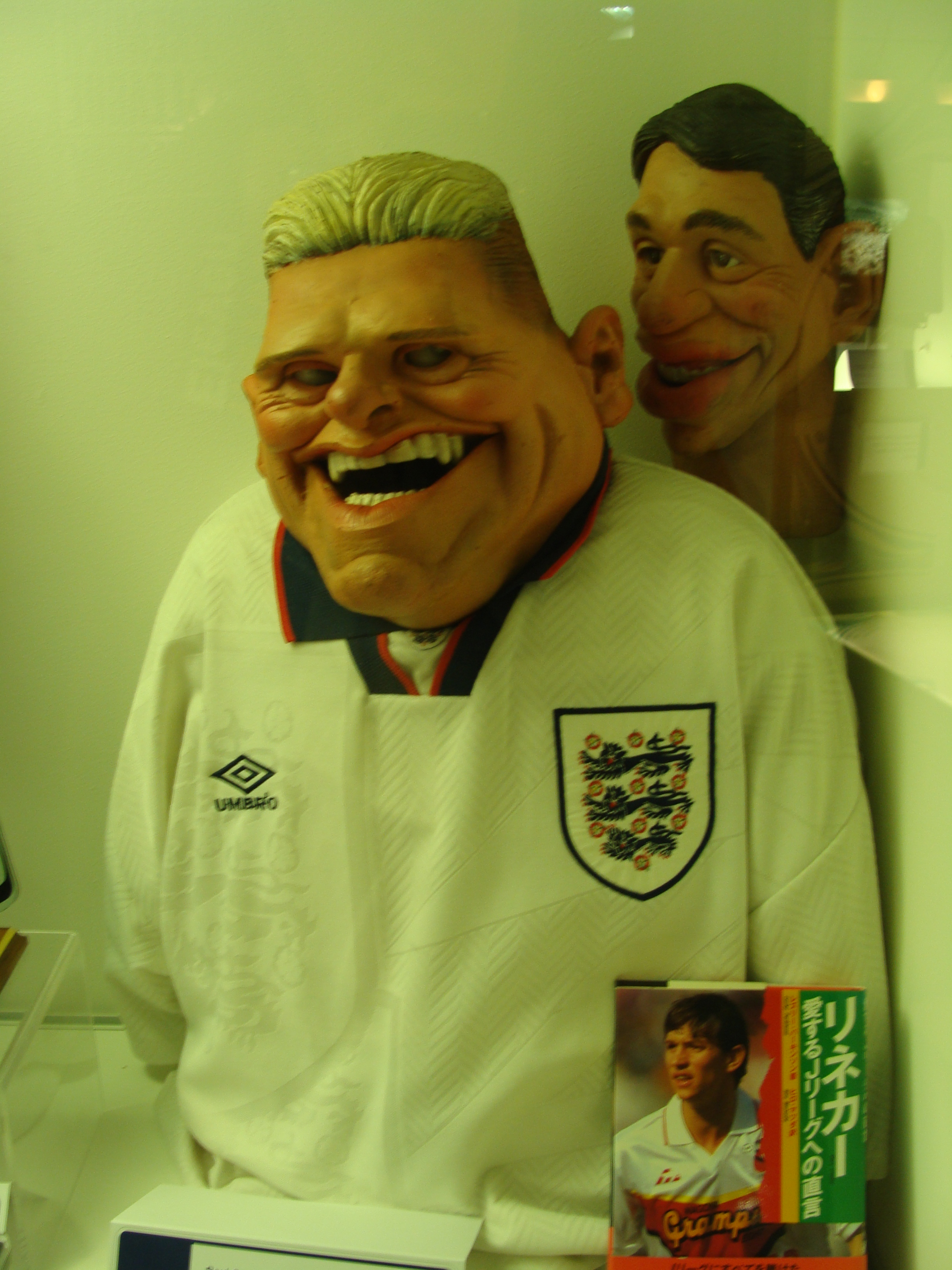 Titelles de Paul Gascoigne i Gary Lineker, utilitzades al programa Spitting Image